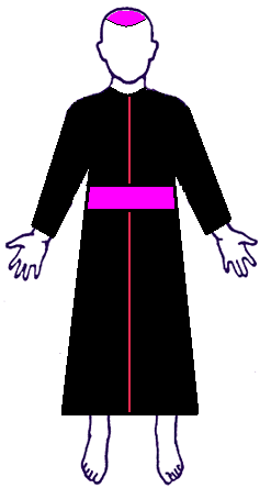 Roman Catholic bishop in cassock